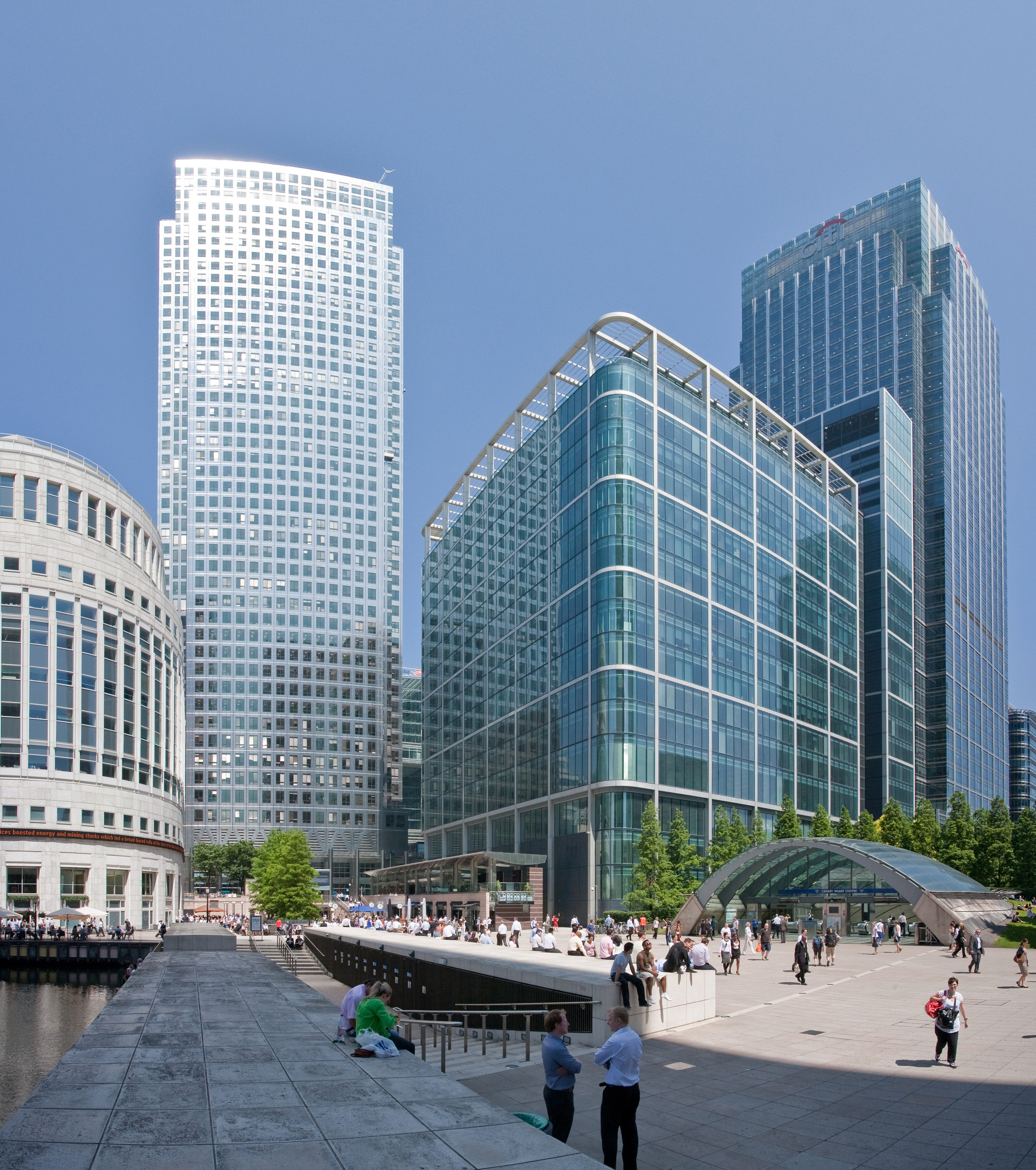 A two segment stitched image of Canary Wharf as viewed from the south-west. From left to right are the Reuters Building, 1 Canada Square, Citigroup Centre and Canary Wharf tube station below.